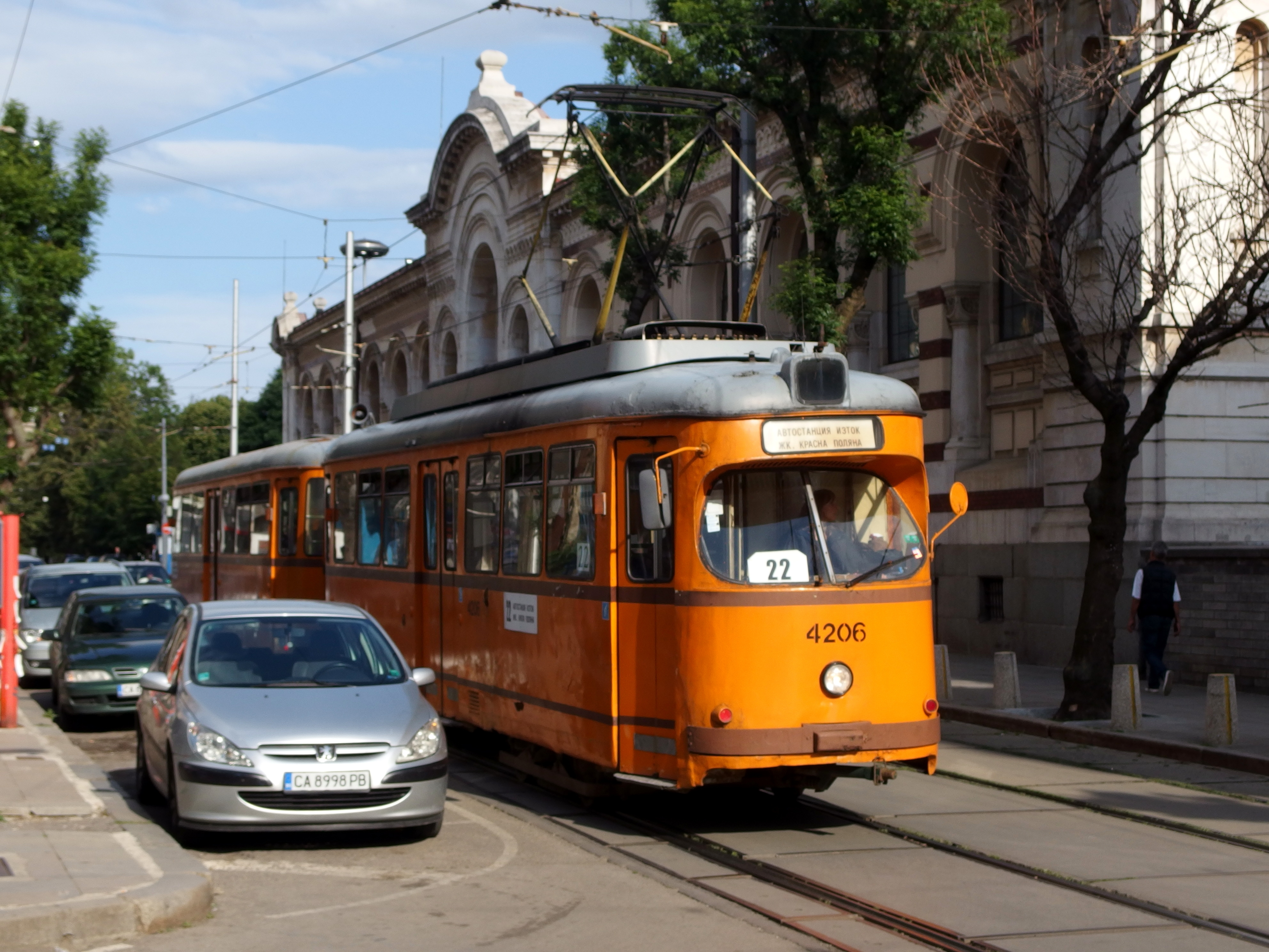 2014-06-14 in Sofia.